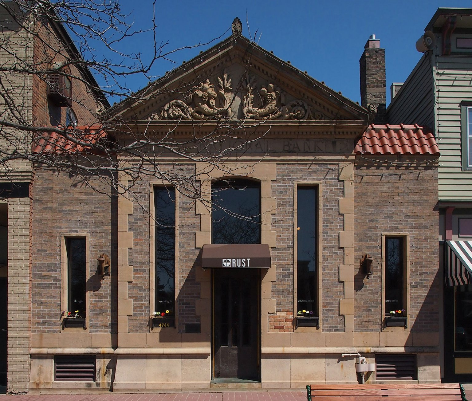 First National Bank of White Bear (now the offices of Rust Architects), 4744 Washington Ave, White Bear Lake, Minnesota, USA. Viewed from the west.